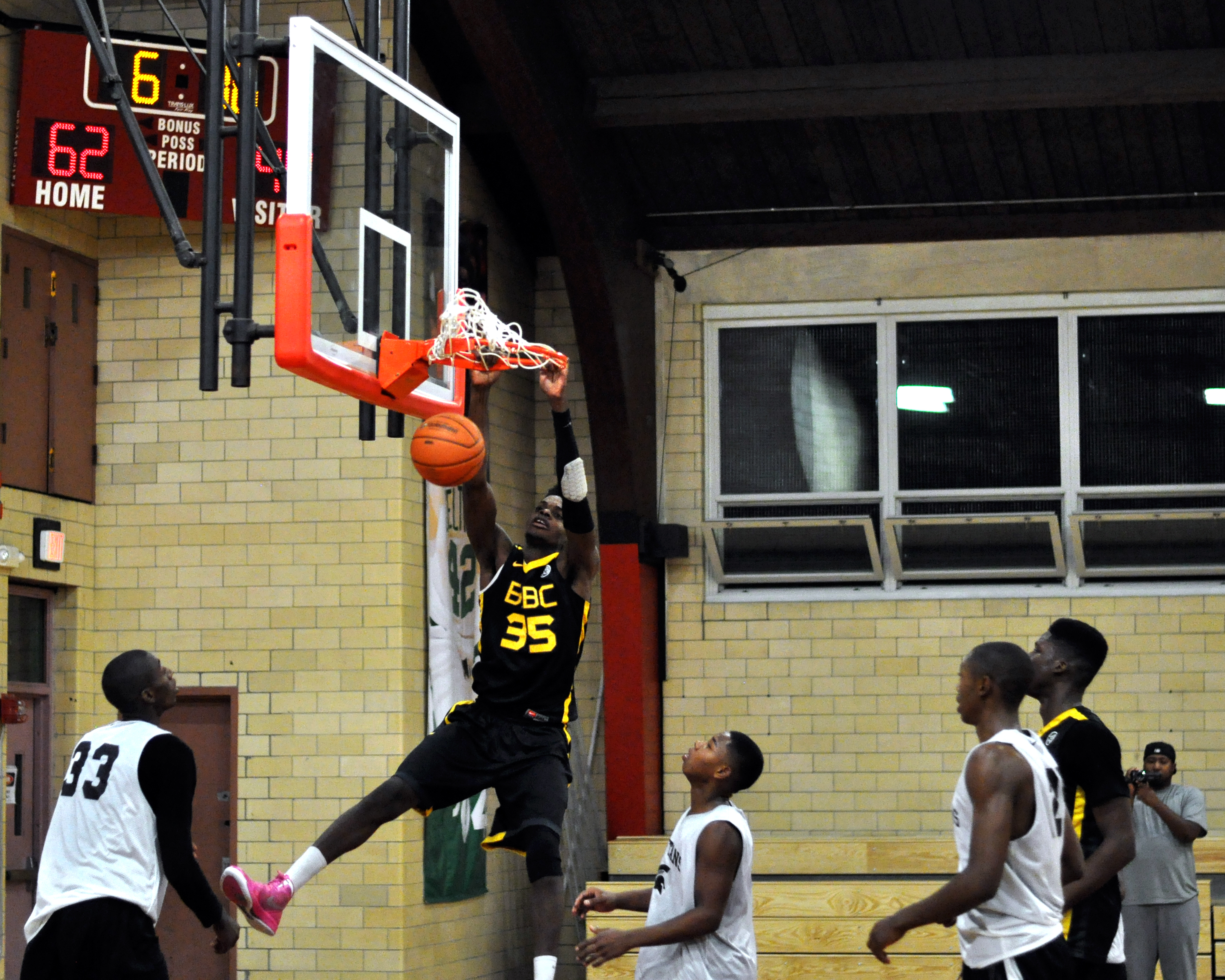 November 6, 2011 Roxbury, Massachusetts Nerlens Noel